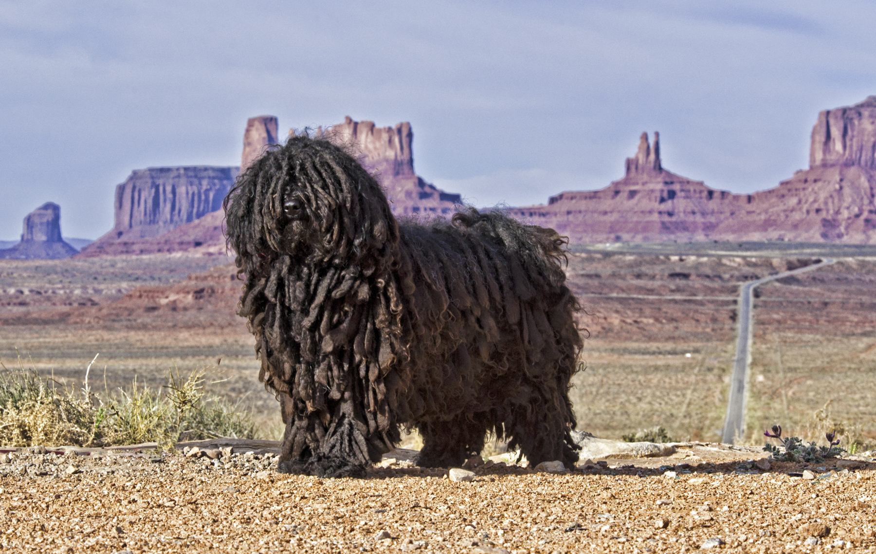 Prydain X-ceptional Sprite visits the Monument Valley on the Utah, Arizona border after a successful dog show weekend in Phoenix where she won a 4-point major, one of two major wins (worth 3 to 5 points depending on how many entered) required on the way to earning the 15 points needed to become an AKC champion. She now has 12 points and one major win. GO Spritey !